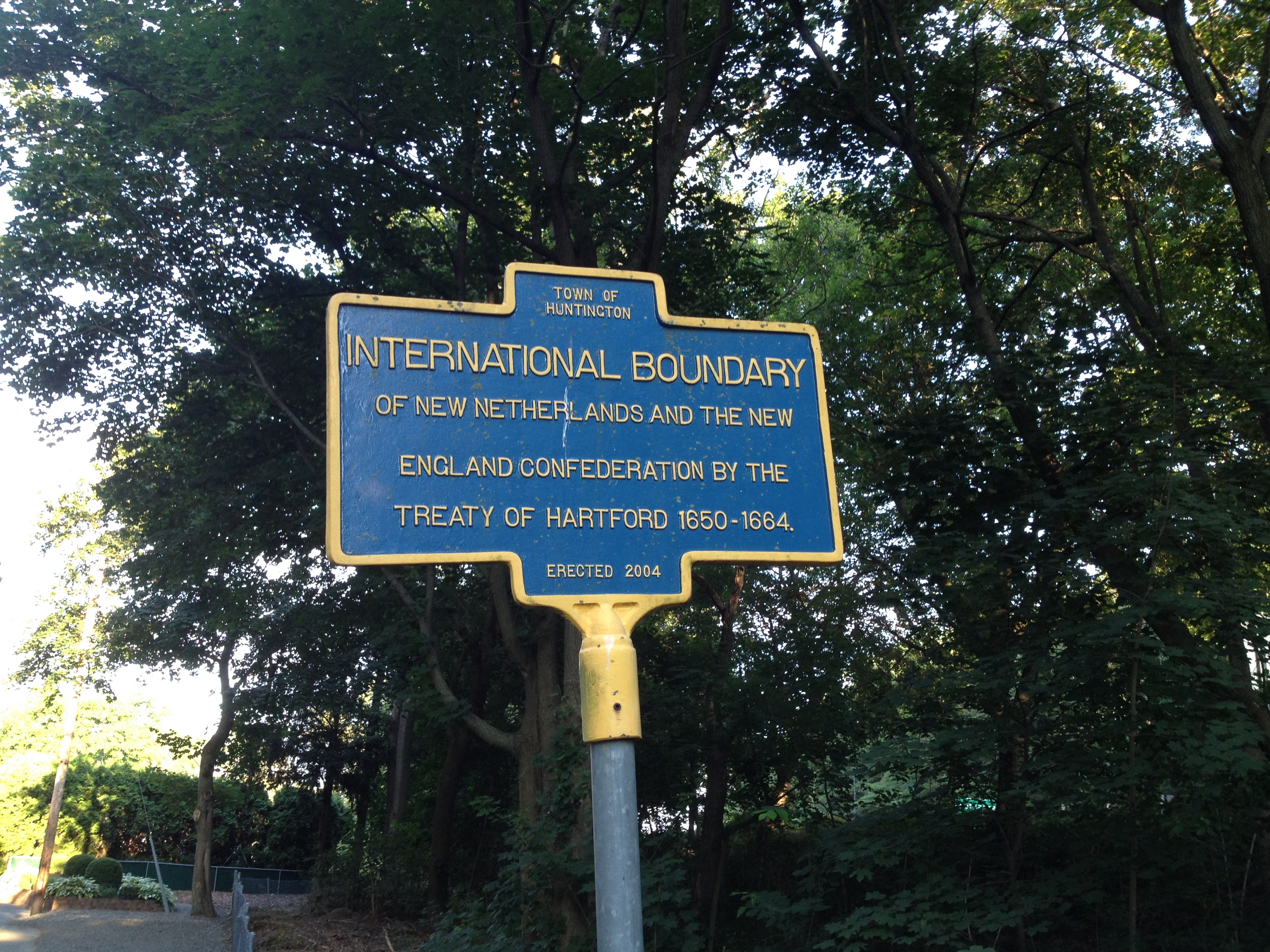 A historical marker located at the border of Nassau County and Suffolk County on Manetto Hill Drive in West Hills, Long Island, New York indicating the boundary between New Netherlands and The New England Confederation under the Treaty of Hartford (1650-1664). Sign is located at 40°48'19.1"N 73°26'55.4"W